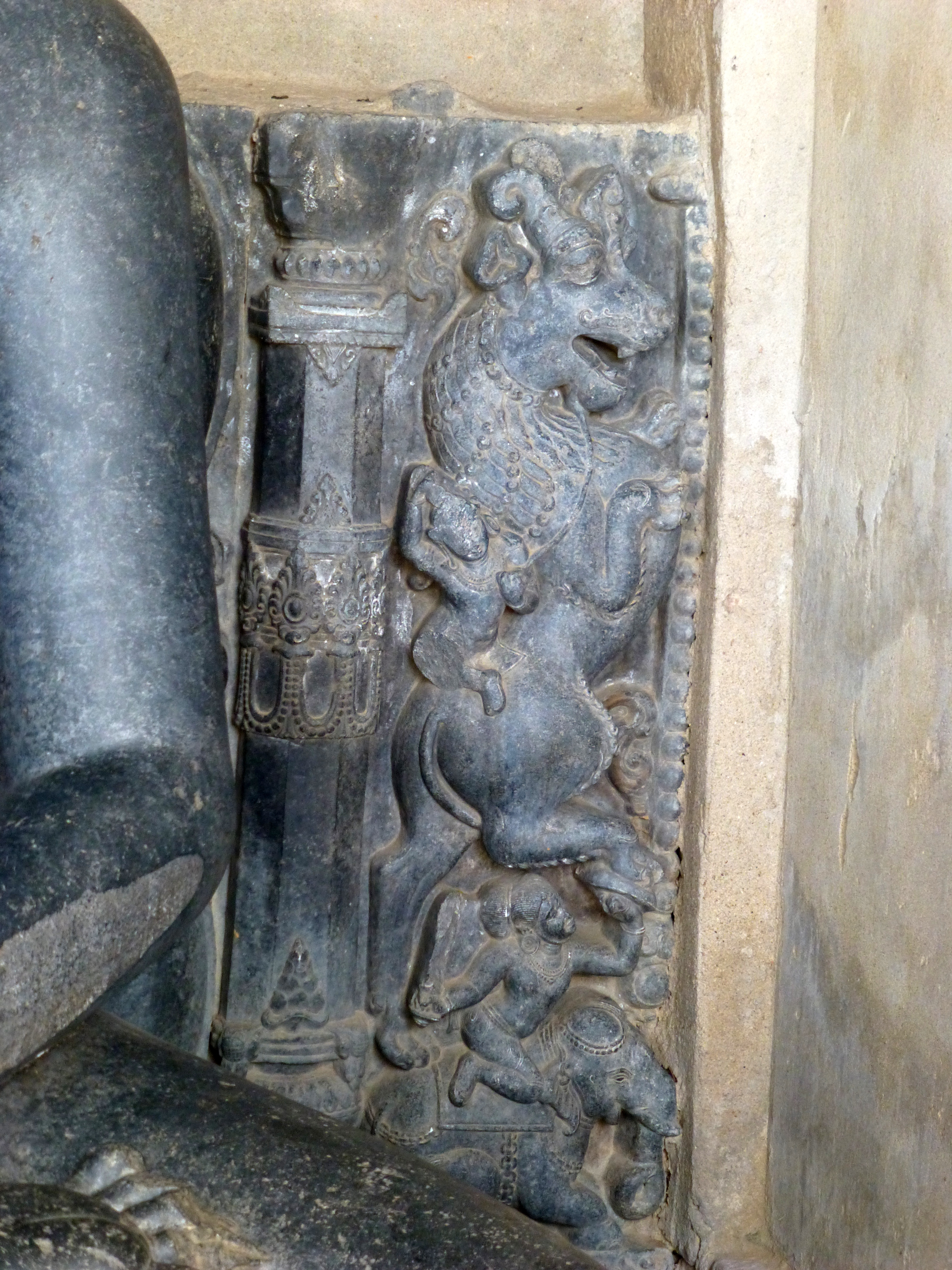 072 Stone Carving at Barabar, Bihar Photograph from the Barabar Caves in Bihar taken by Anandajoti.